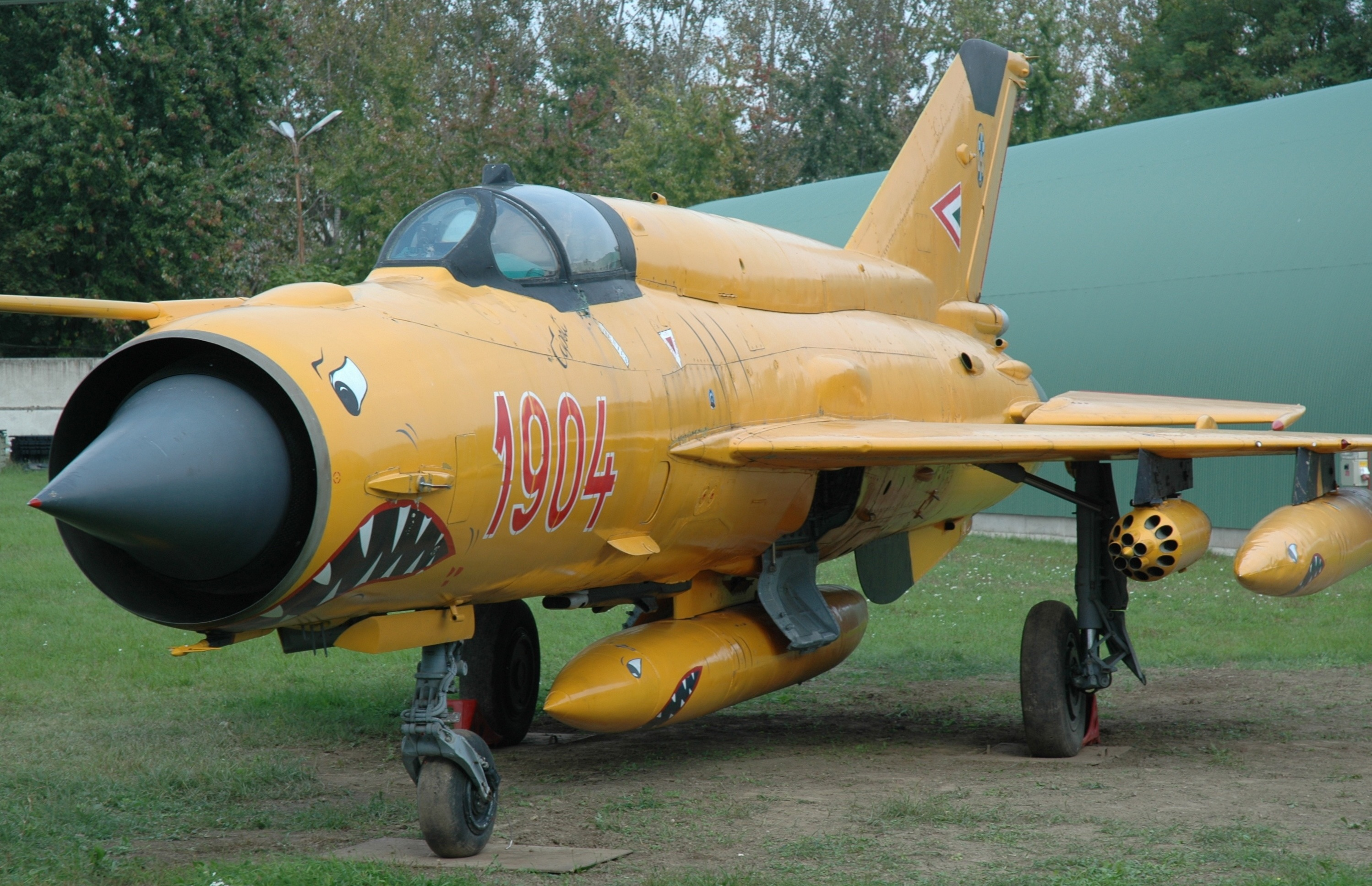 Mikoyan-Gurevich MiG-21bis (75AP) fighter (named "Cápeti") with special painting. Displayed at the Hungarian Aviation Museum in Szolnok.